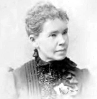 Cynthia S. Burnett